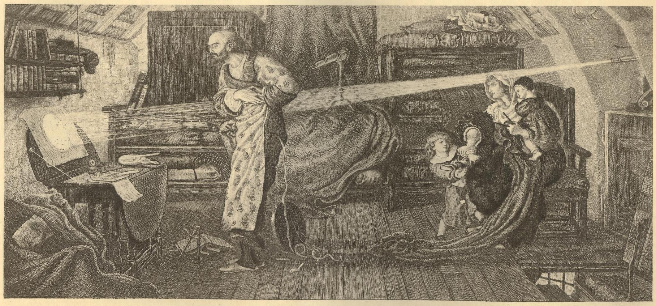 First observation of the transit of Venus by William Crabtree in 1639. Photogravure from an old etching.